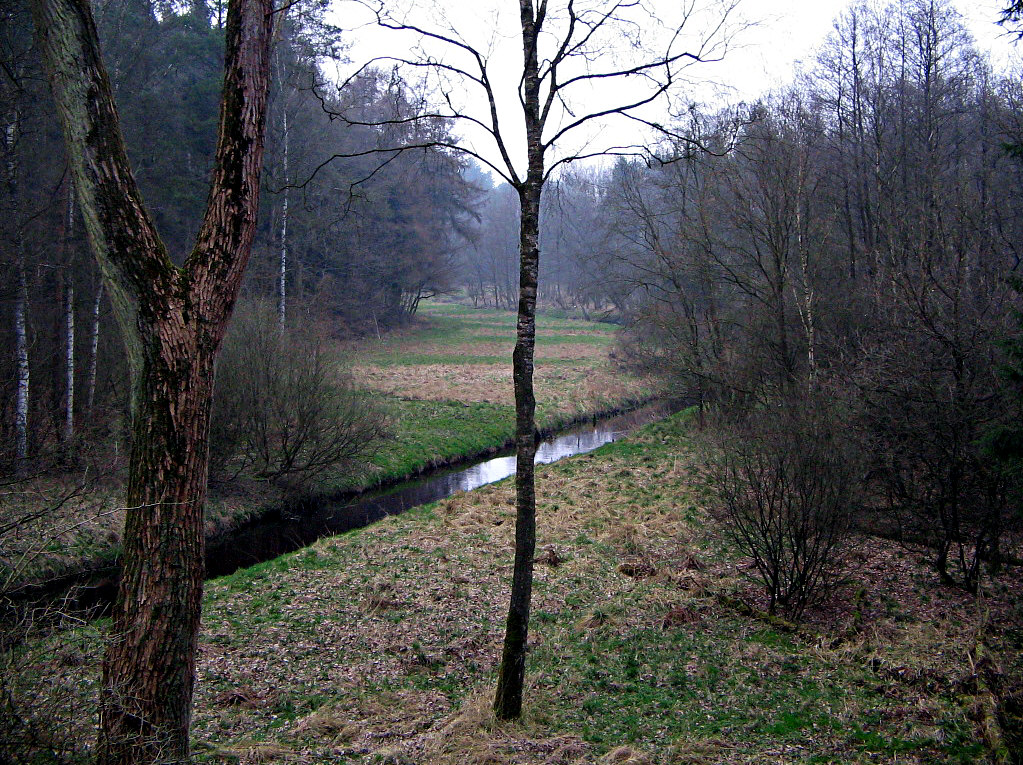 Bomlitz valley south of Bomlitz (Lueneburg Heath, Lower Saxony)